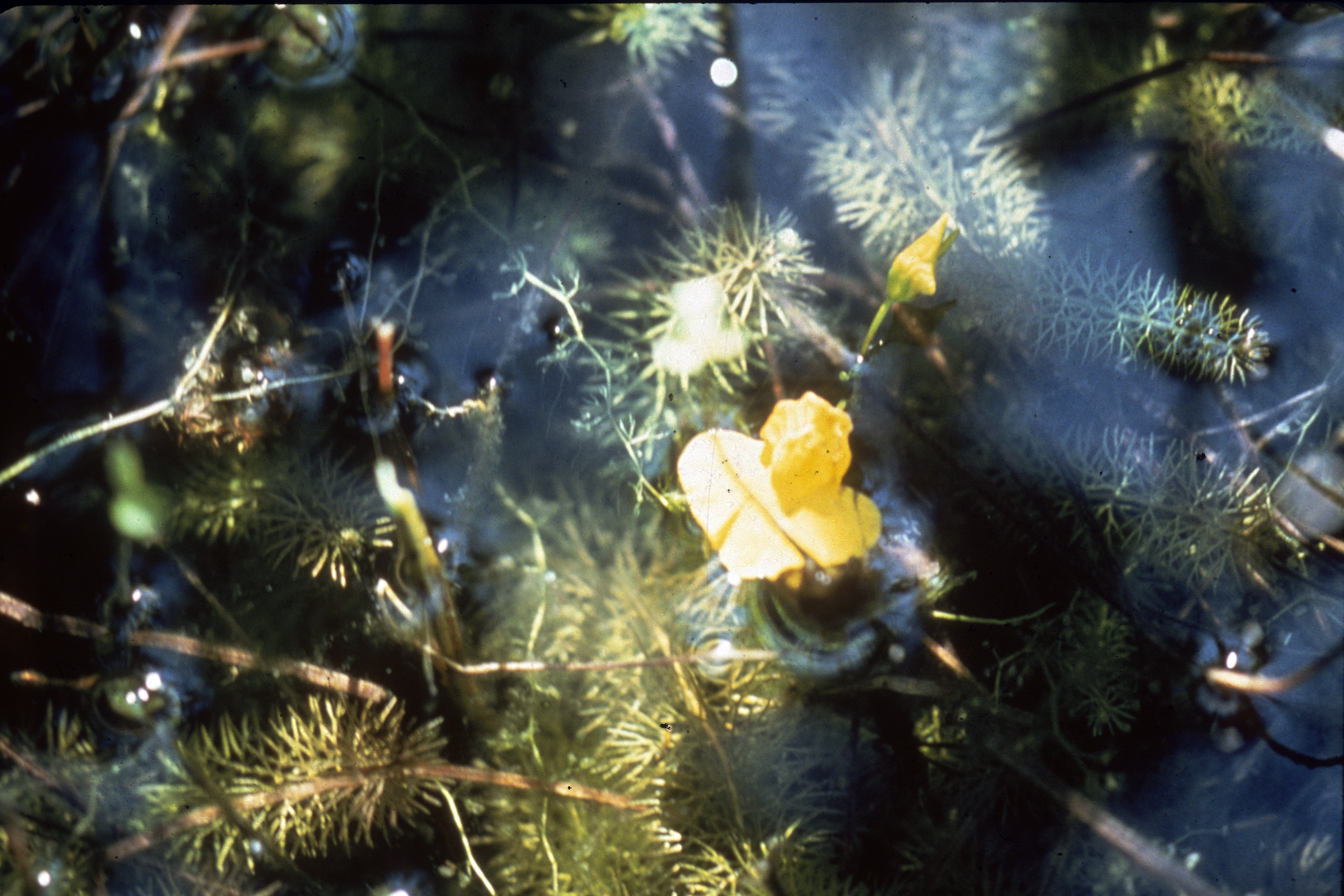 Utricularia intermedia